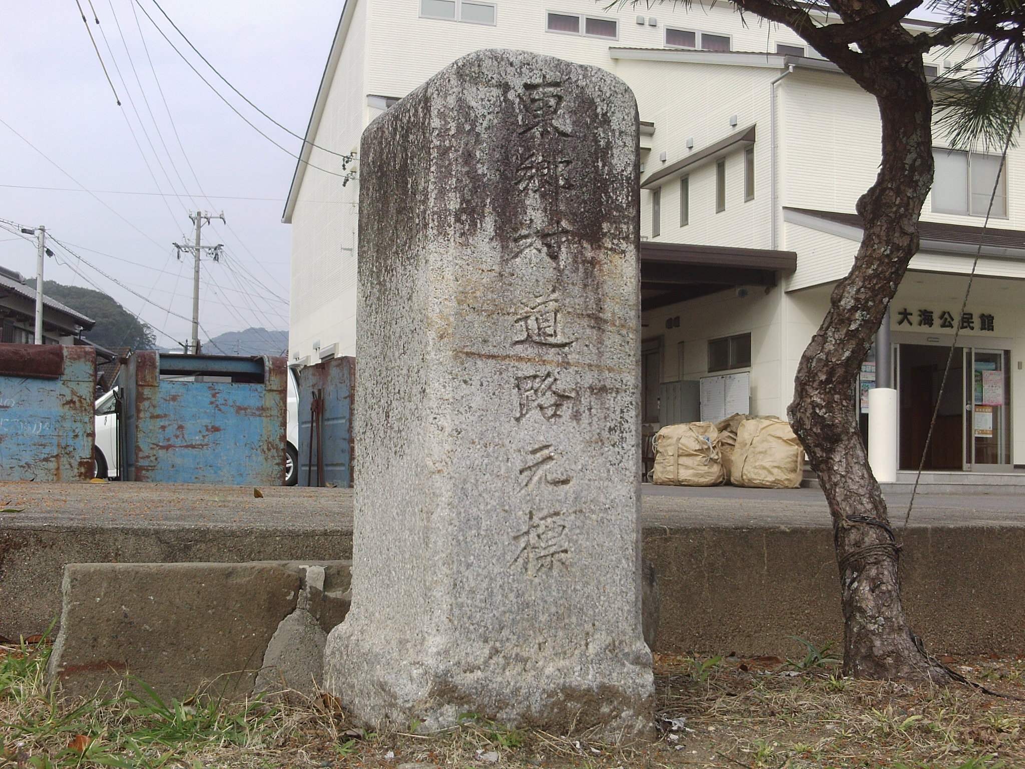 Kilometre zero of Togo village. (Togo village, Minamishitara-gun, Aichi.)